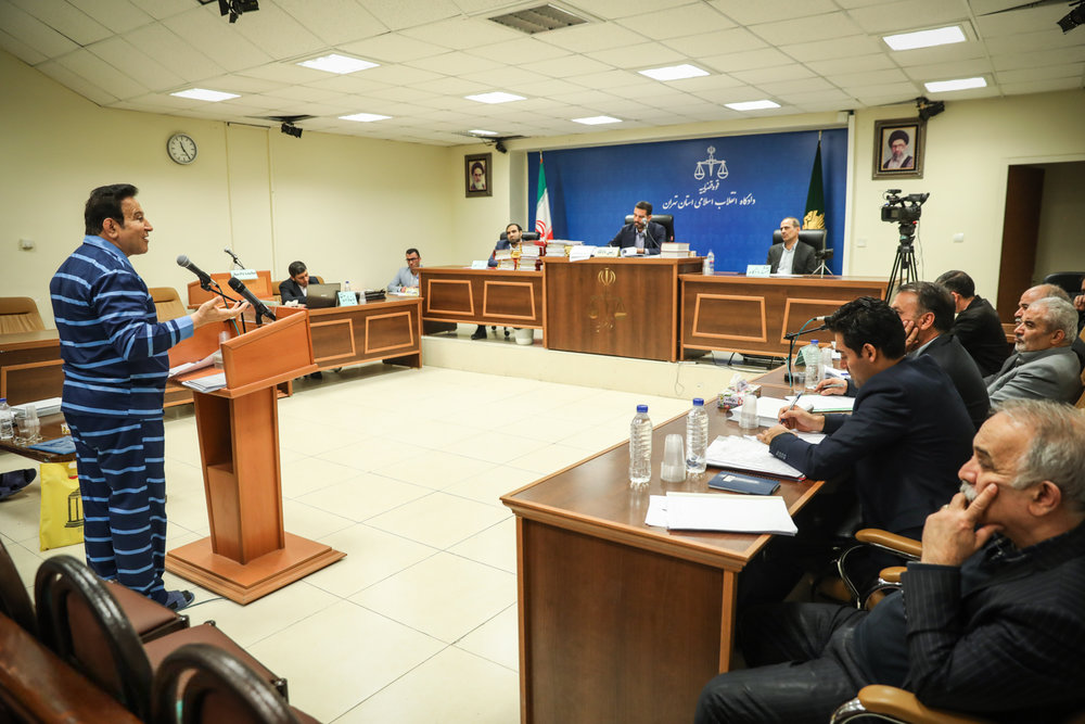 Hossein Hedayati